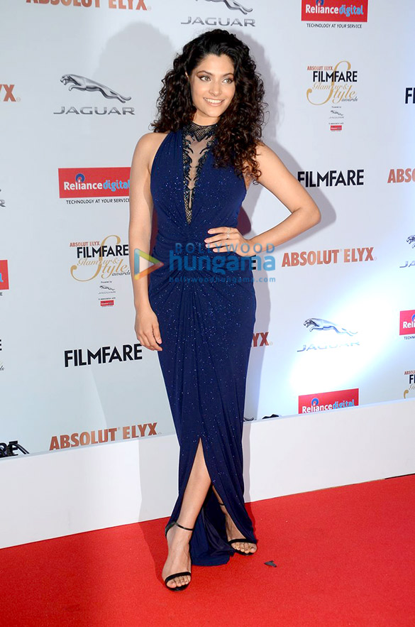 Kher gracing ‘Filmfare Glamour & Style Awards 2016’